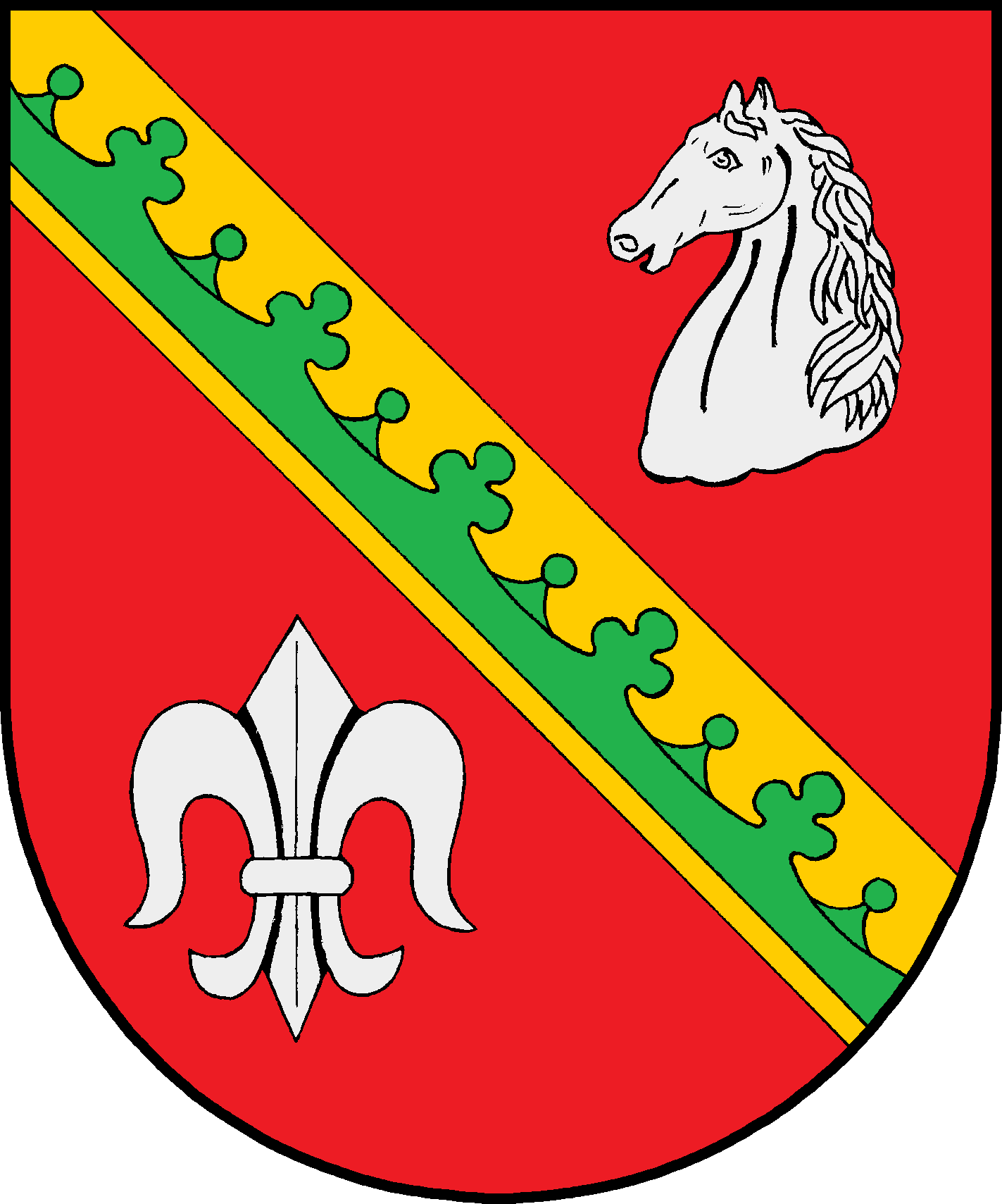 Coat of arms of the municipality Basthorst in Schleswig-Holstein, Germany.